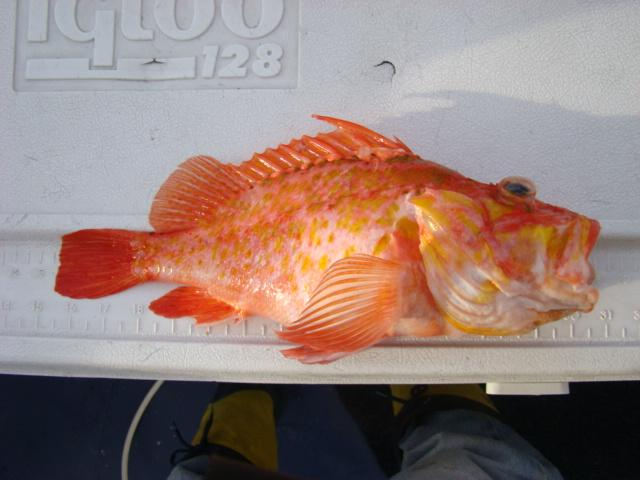 Pontinus kuhlii collected in Azores islands, Portugal.